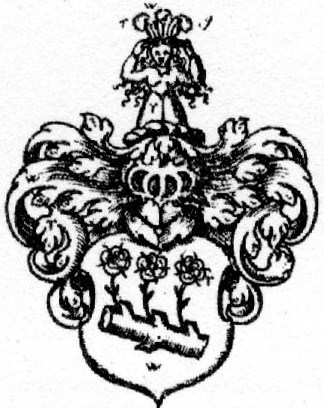 Coat of Arms of the german family von Brederlow